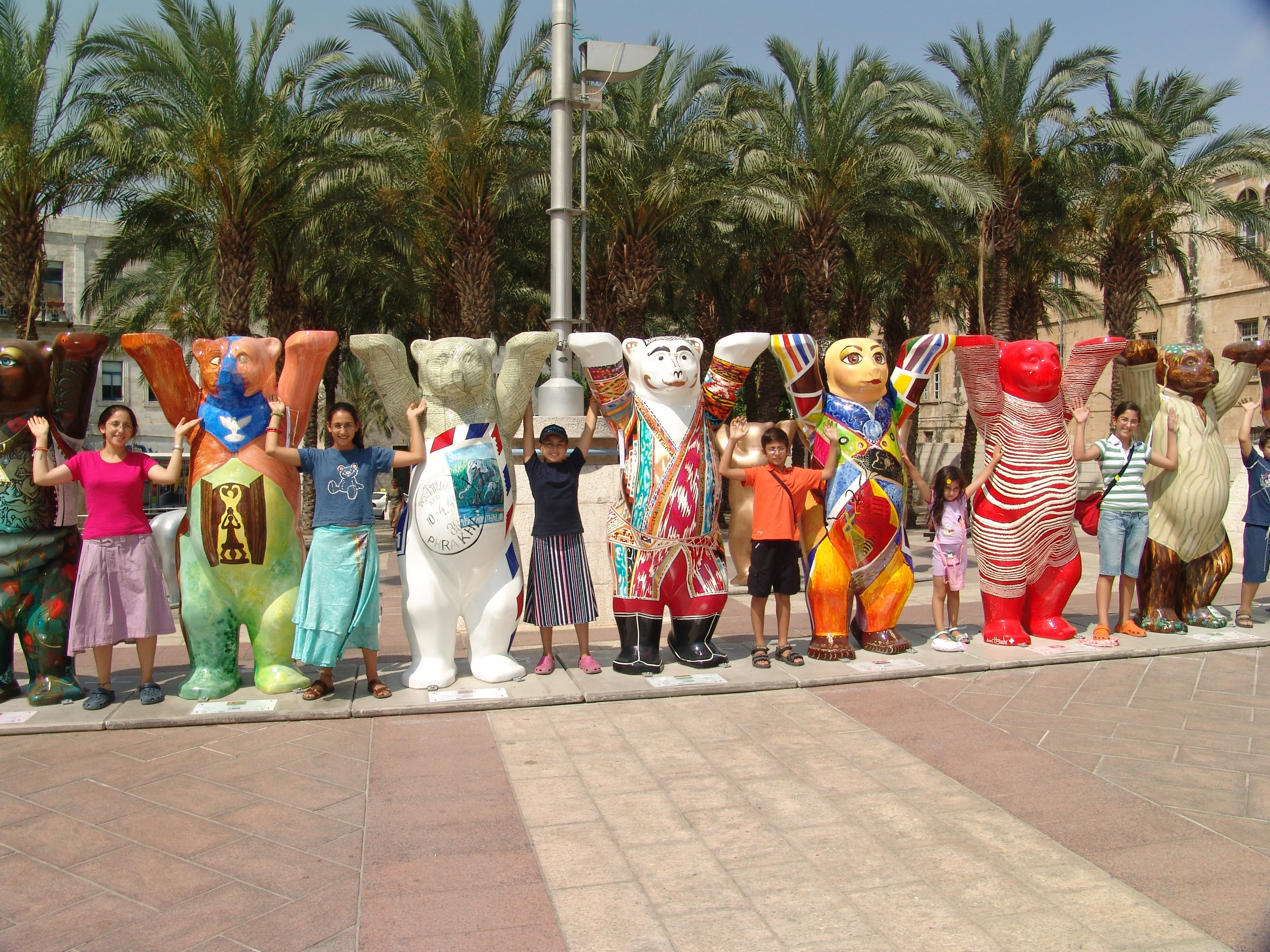 United Buddy Bears on Safra Square, Jerusalem